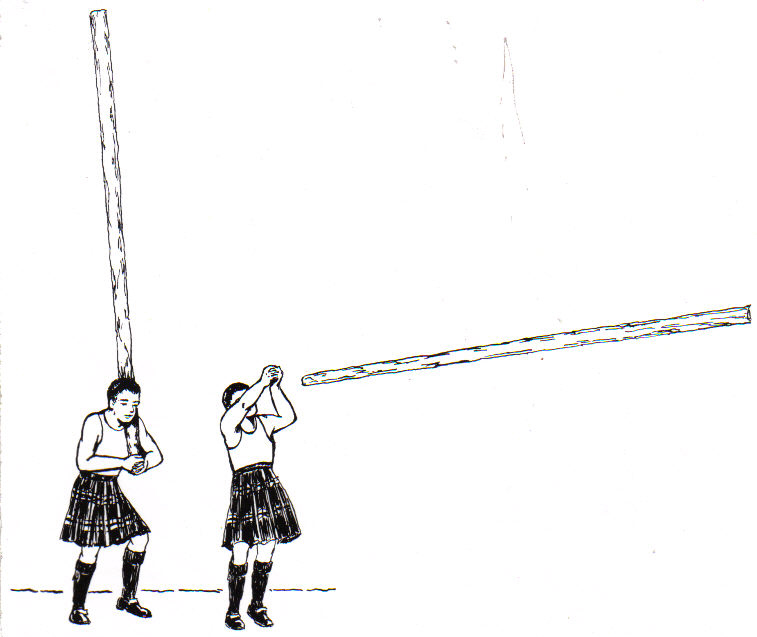 line art drawing of caber-tossing